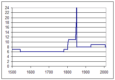 Diagram of the offical number of planets in the Solar system over time 1500-2007